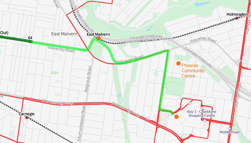 A map of the proposed extension to the Route 3 tram in Melbourne. Dark green shows current route, light green shows proposed route, orange dots show points of interest.